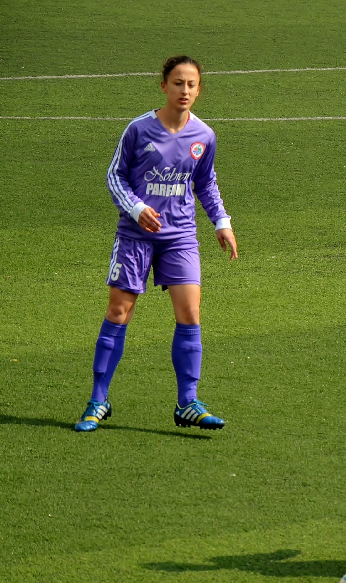 İpek Özgan playing for Kdz. Ereğlispor in the 2014-15 season